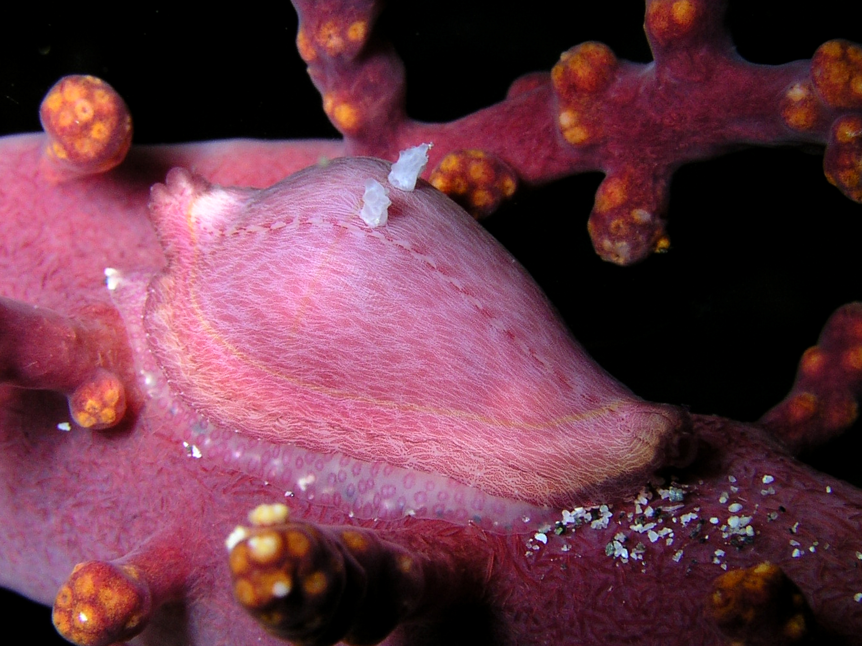 A camouflaged cowry. Dentiovula dosruosa